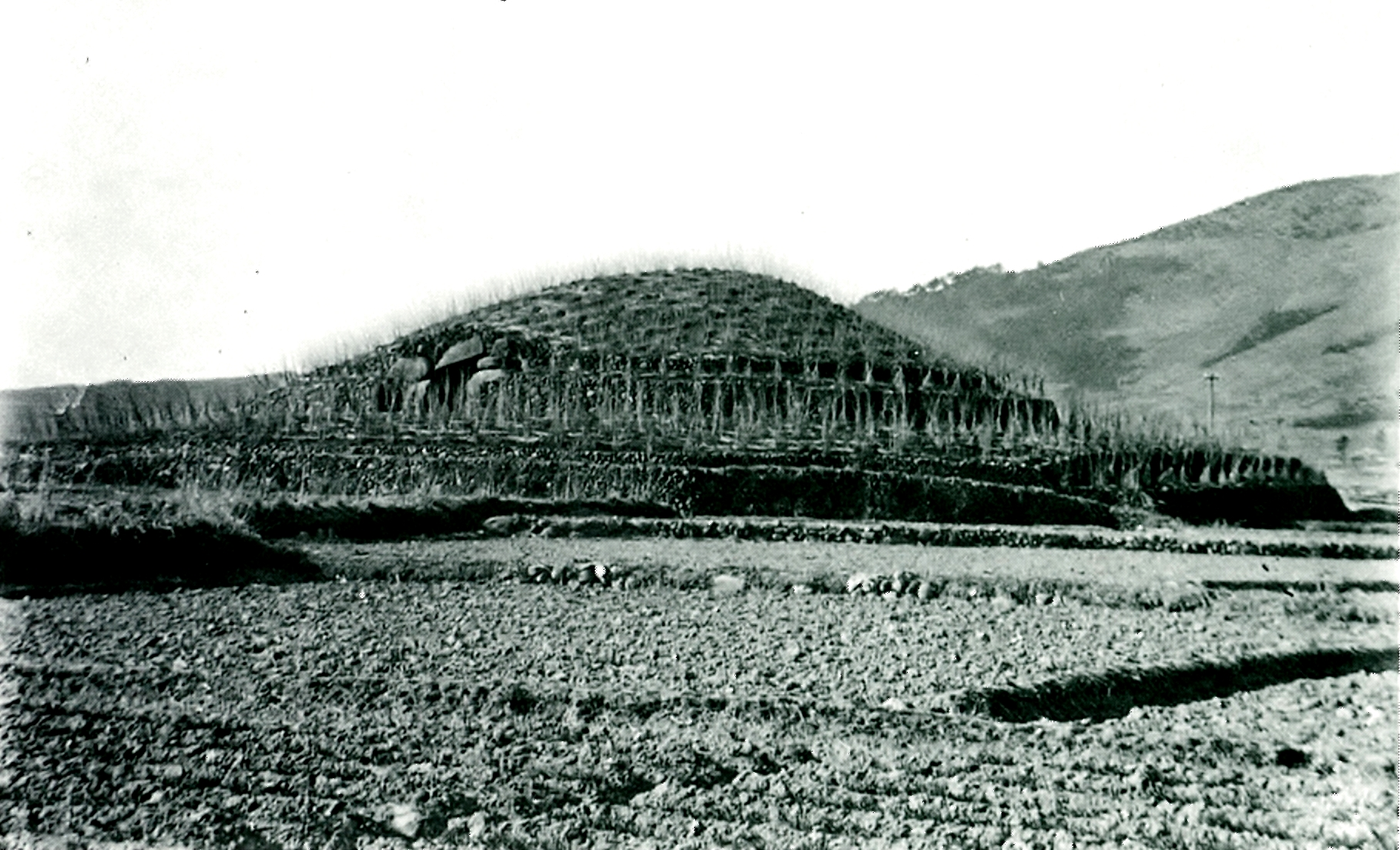 An Kamunazuka ancient burial mound in 1910 's in Kōfu, Yamanashi, Japan